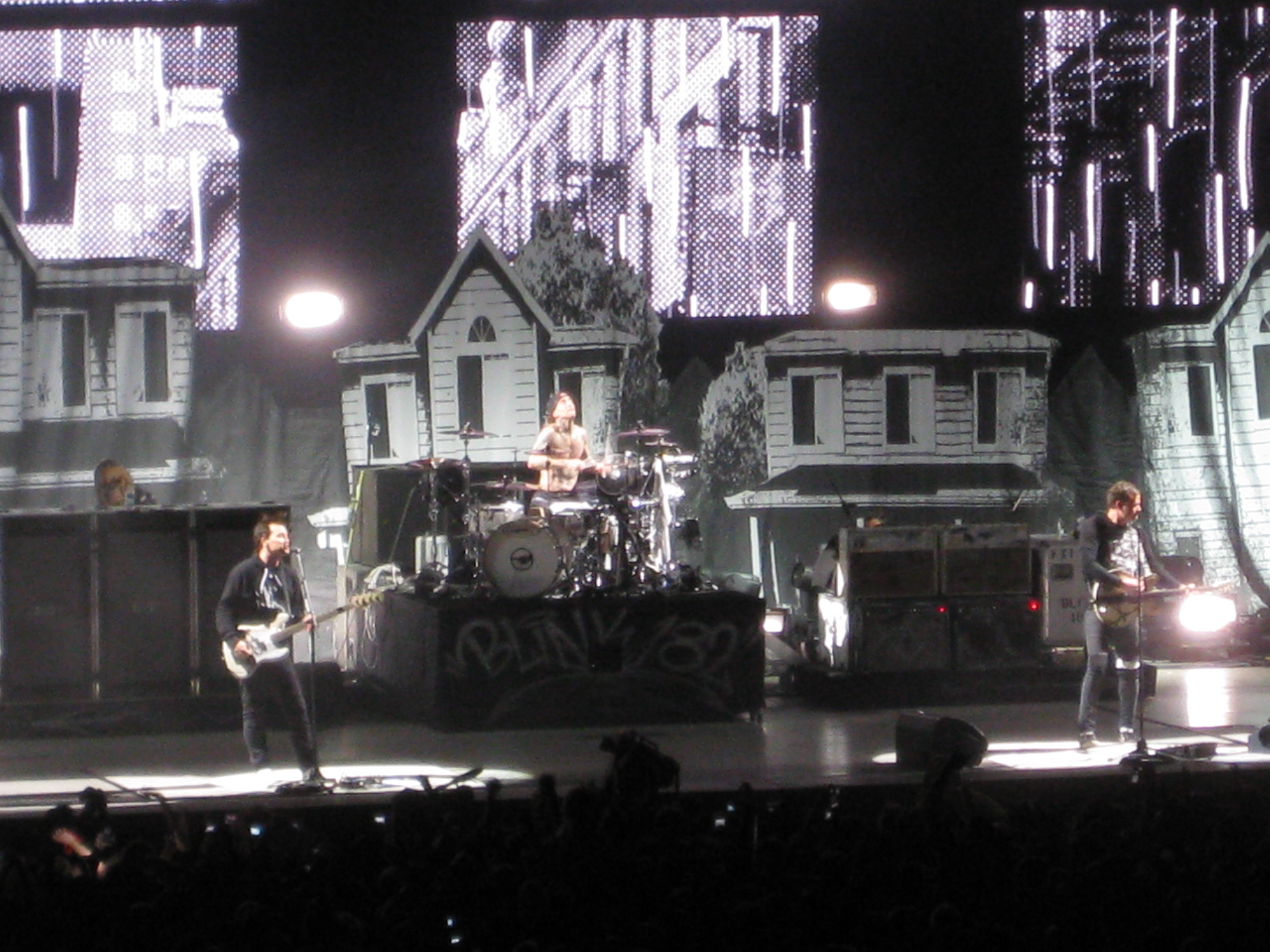 Blink-182 performing on the Honda Civic Tour at the Cricket Wireless Amphitheatre in Chula Vista, California on October 6, 2011. Left to right: Singer/bassist Mark Hoppus, drummer Travis Barker, and singer/guitarist Tom DeLonge.